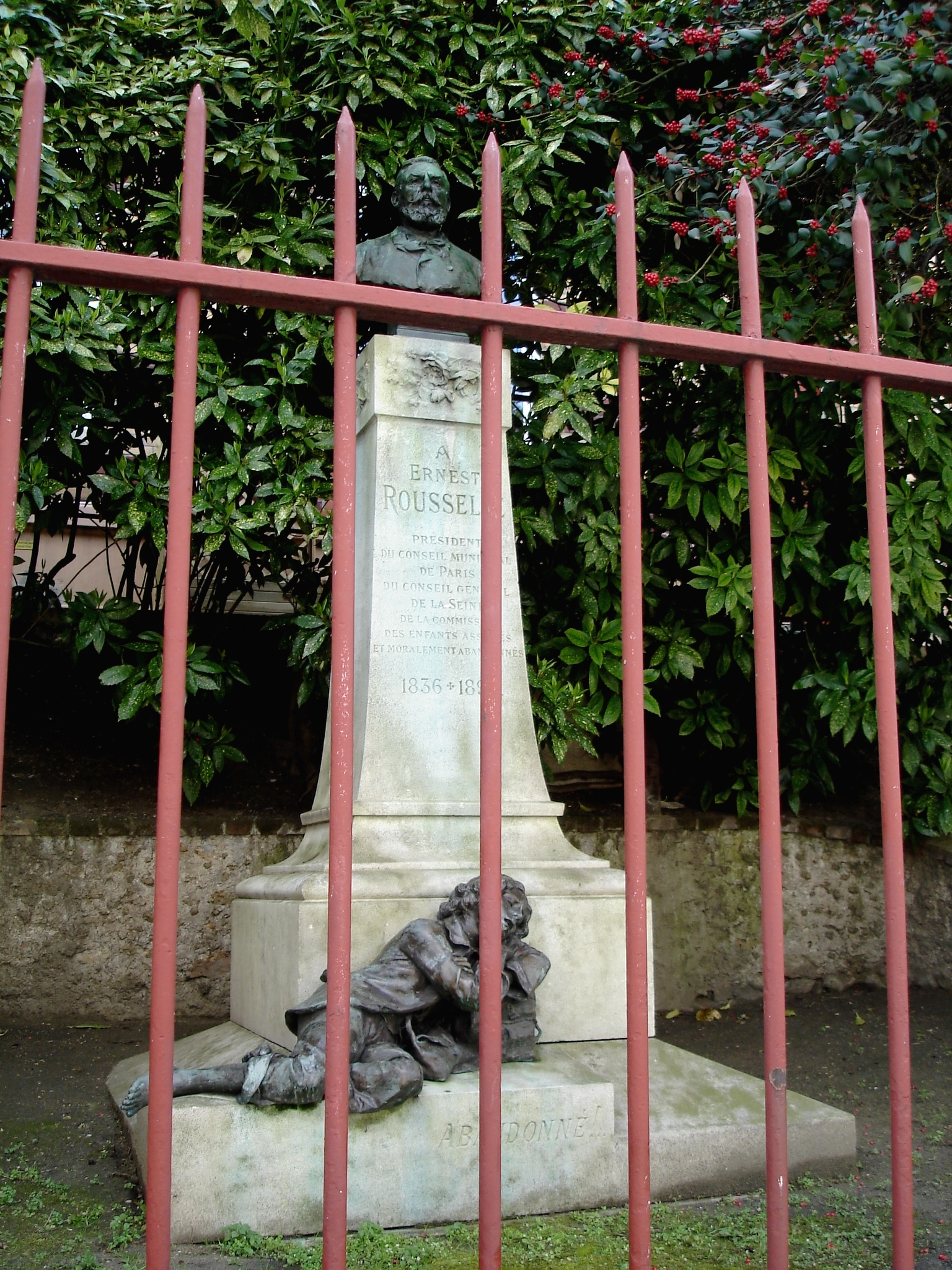 69 Boulevard Auguste-Blanqui (Paris- 13eme arrondissement): Statue of Ernest Rousselle, President of the Conseil Municipal of Paris (1836-1896), in charge of the abandoned children